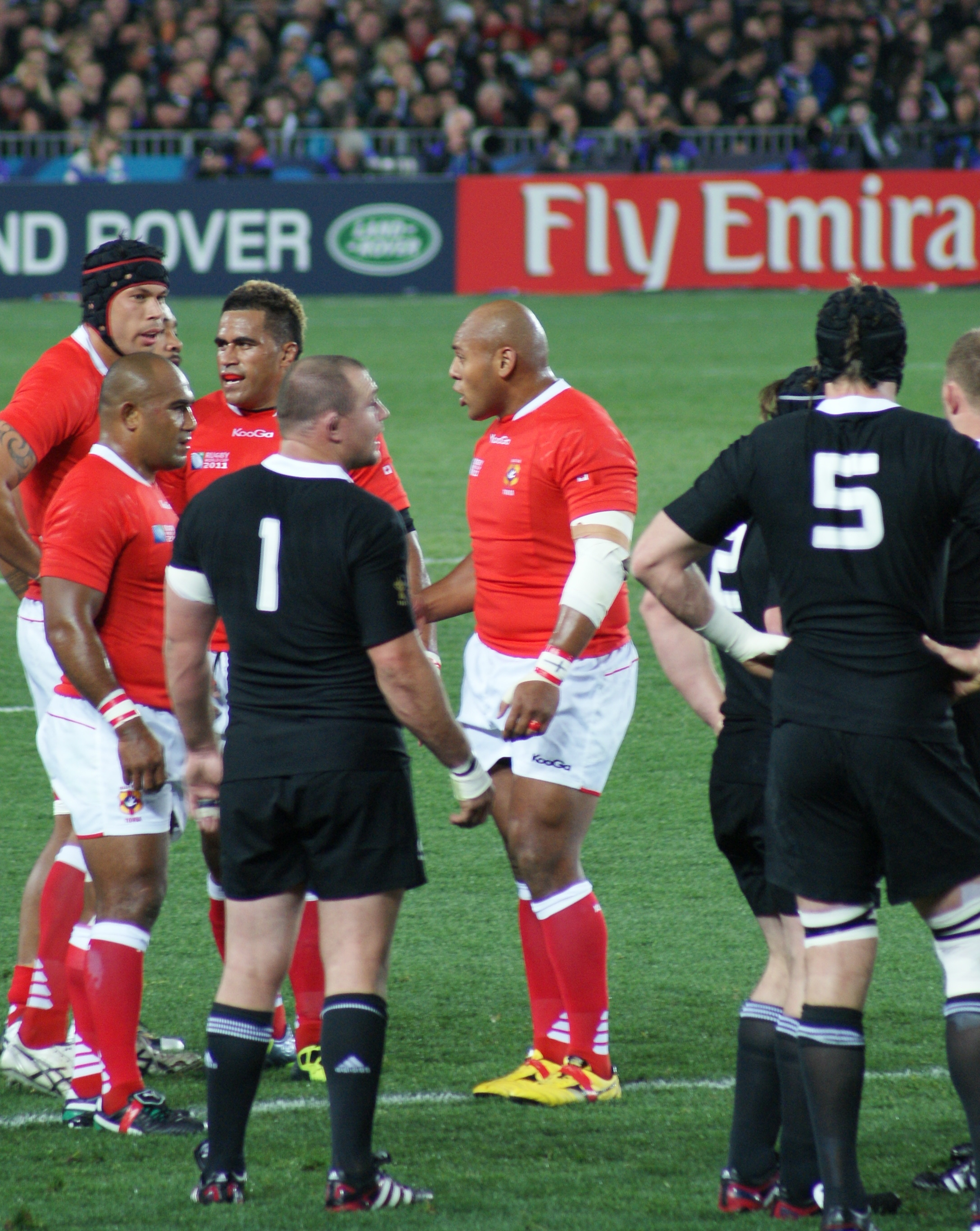 Opening match between New Zealand and Tonga during 2011 Rugby World Cup in New Zealand.